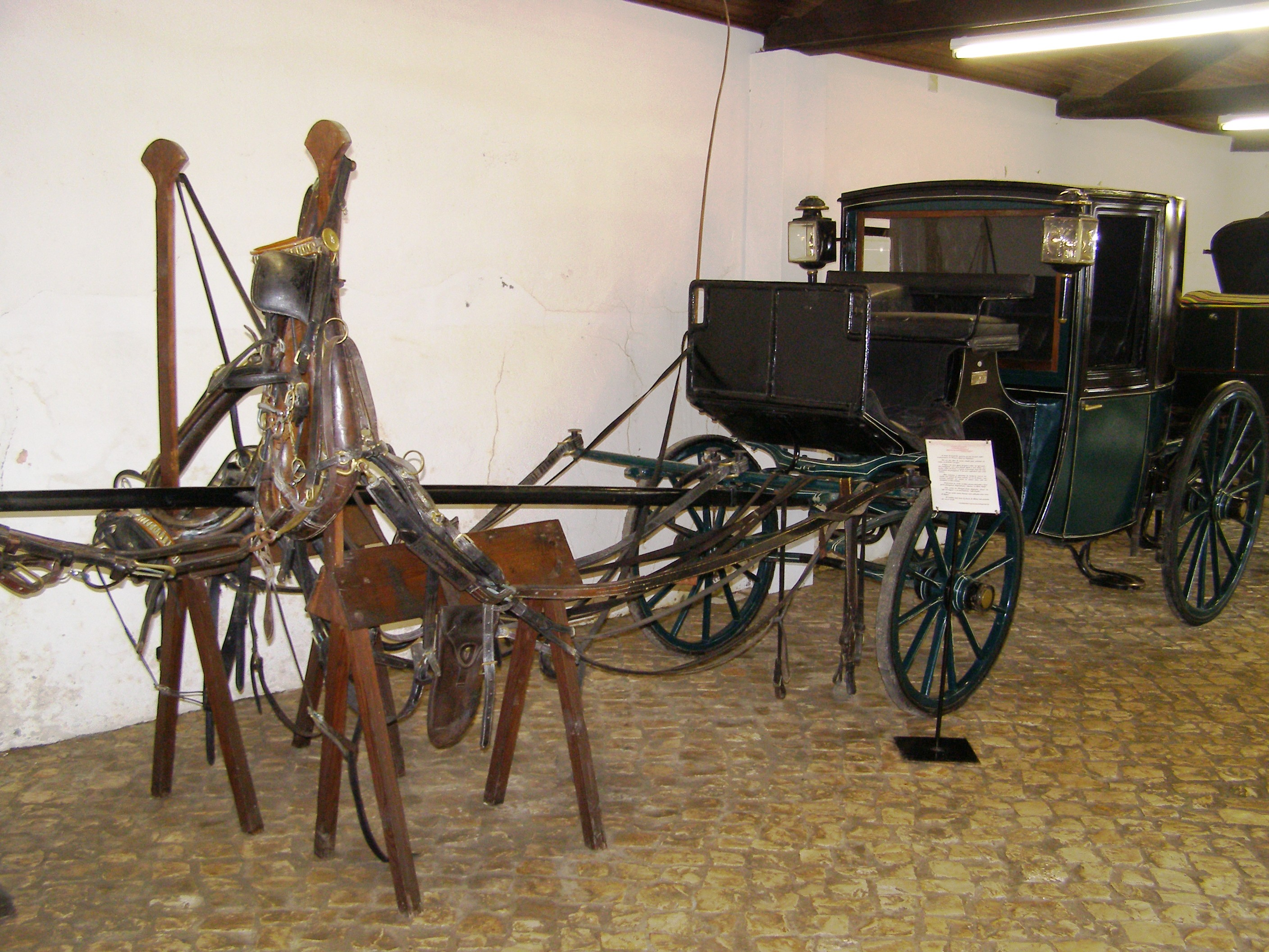 Brougham. Tapada Nacional de Mafra, Portugal.